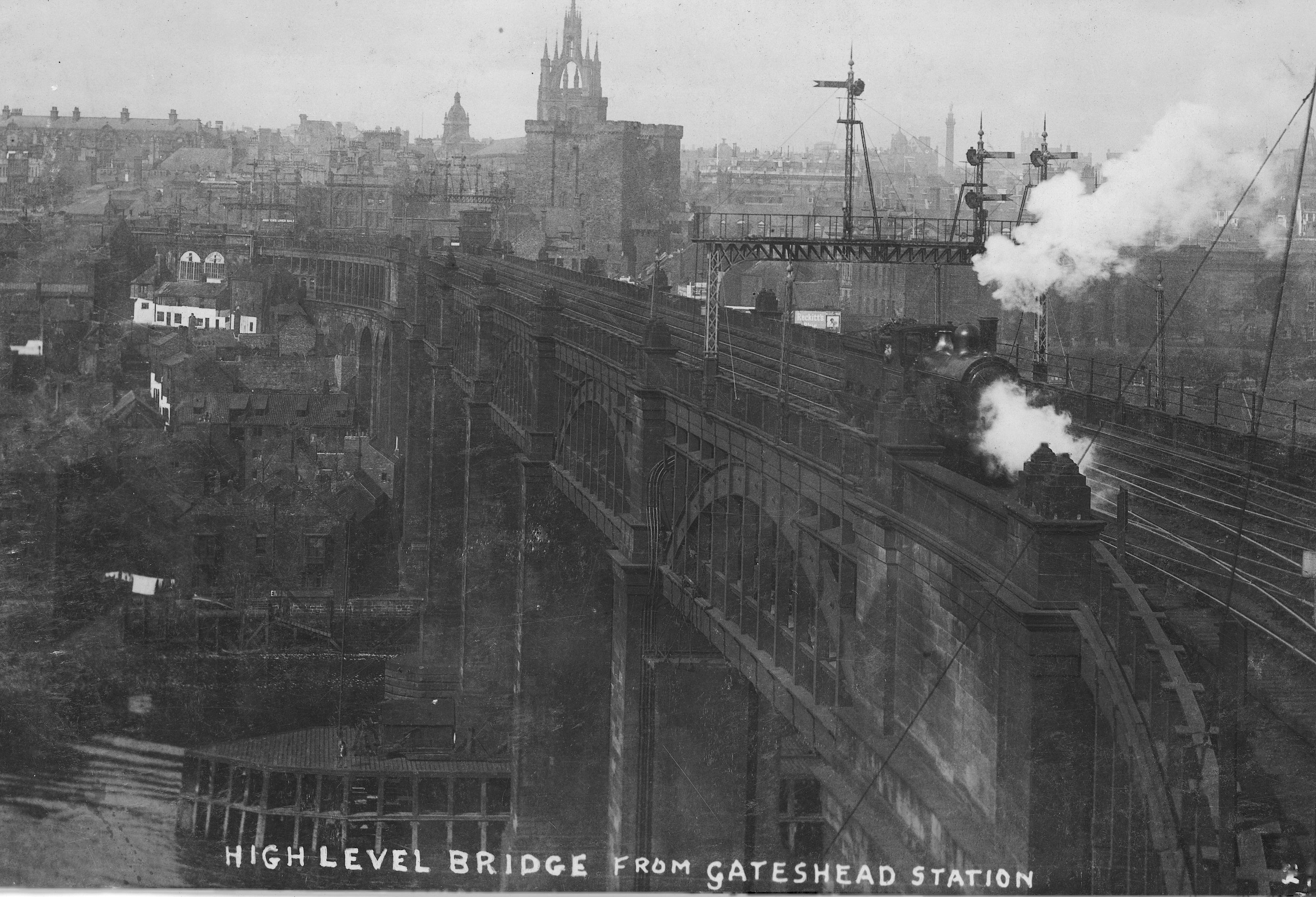 High Level Bridge from Gateshead with bridge and river in view